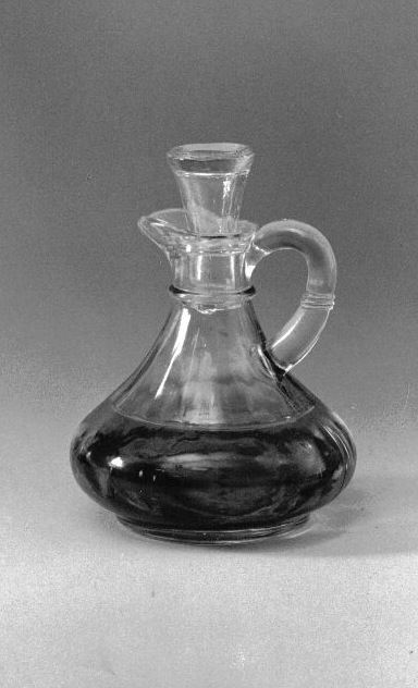 black and white photograph of a cruet.